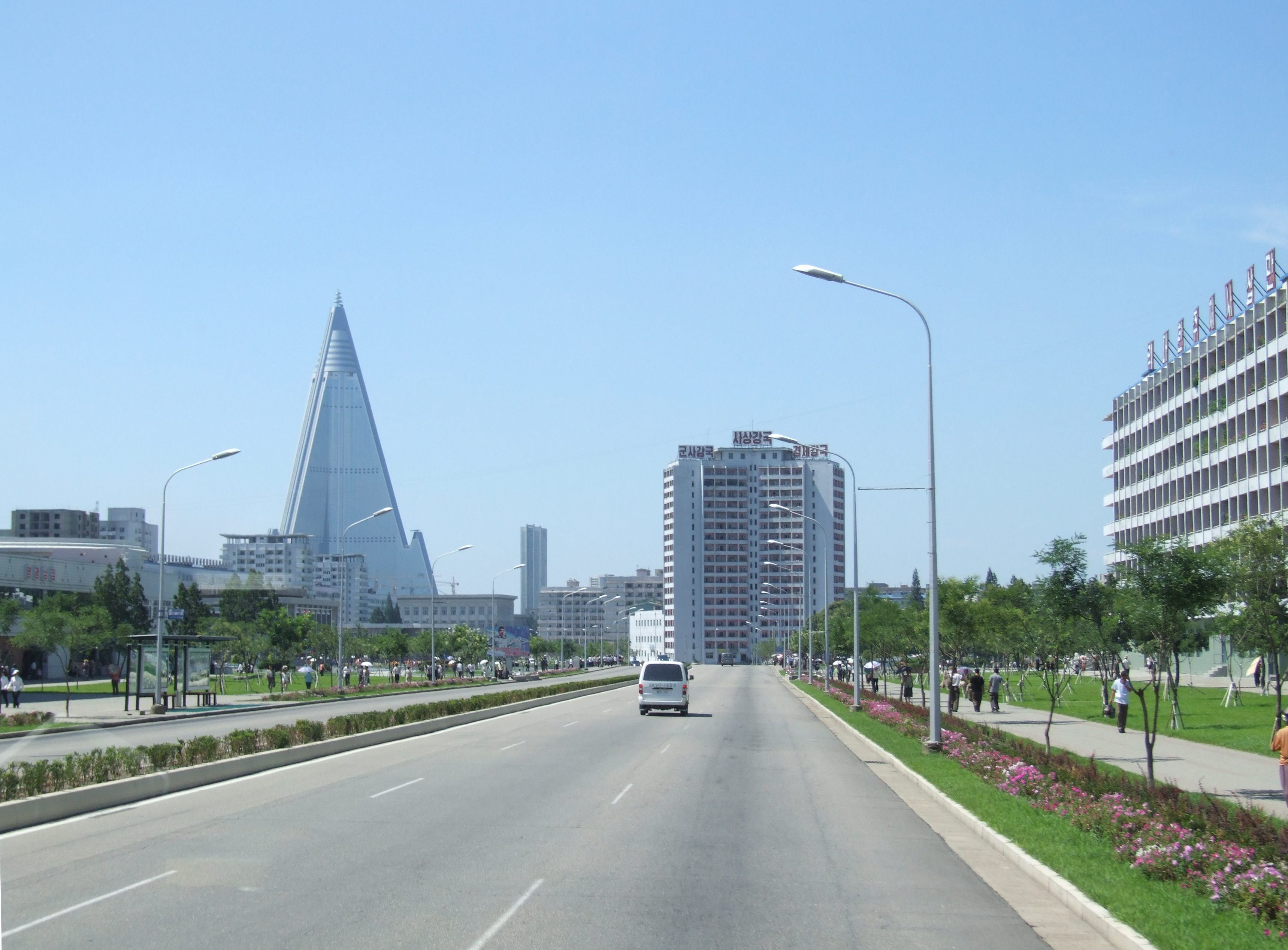 Ryugyong Hotel, Pyongyang